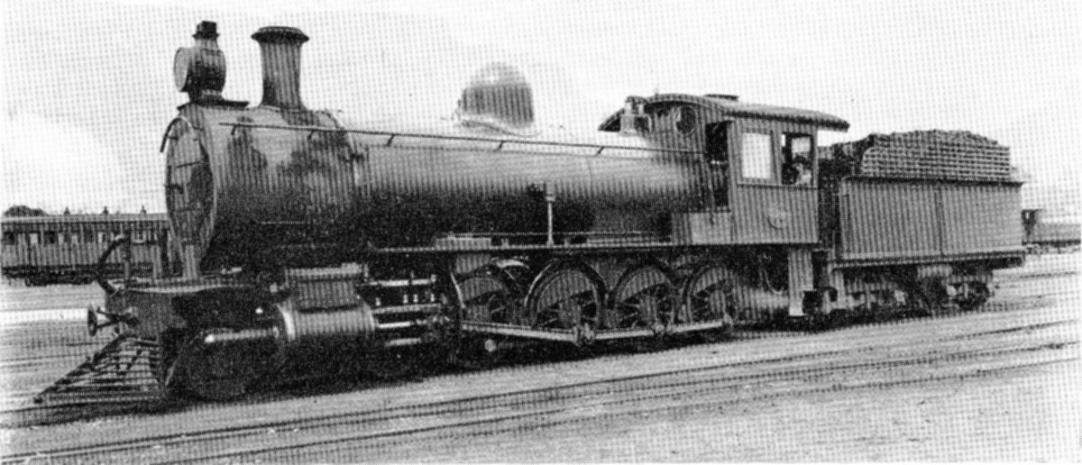 Ex Cape Government Railways Class 8 814 (4-8-0) South African Railways Class 8E 1231 (4-8-0) Builder's Number: Neilson, Reid 6310 Location: Salt River, Cape Town